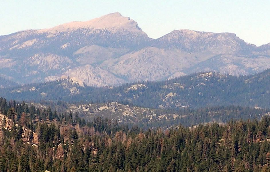 Olancha Peak from Bald Mountain, Sierra Nevada, Tulare County, California. The southernmost Emblem Peak of the Sierra Club's Sierra Peaks Section.